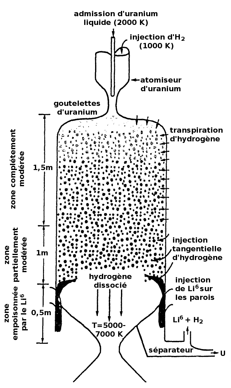 Diagram of a Droplet Core Nuclear Rocket